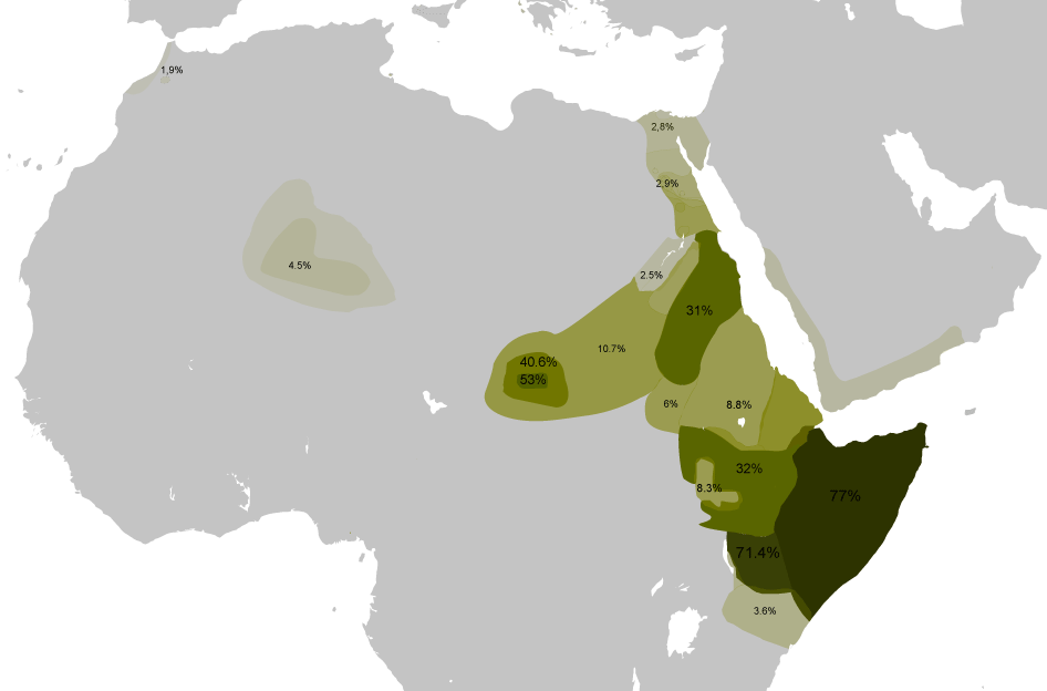 Distrubtion of E1b1b1a1b (V32) within Africa. Info gathered from: Hassan et al. (2008), Tillmar et al. (2009), Cruciani et al. (2007), and Cruciani et al. (2004).